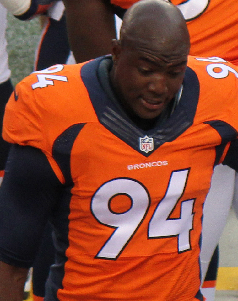 DeMarcus Ware, a player on the National Football League.